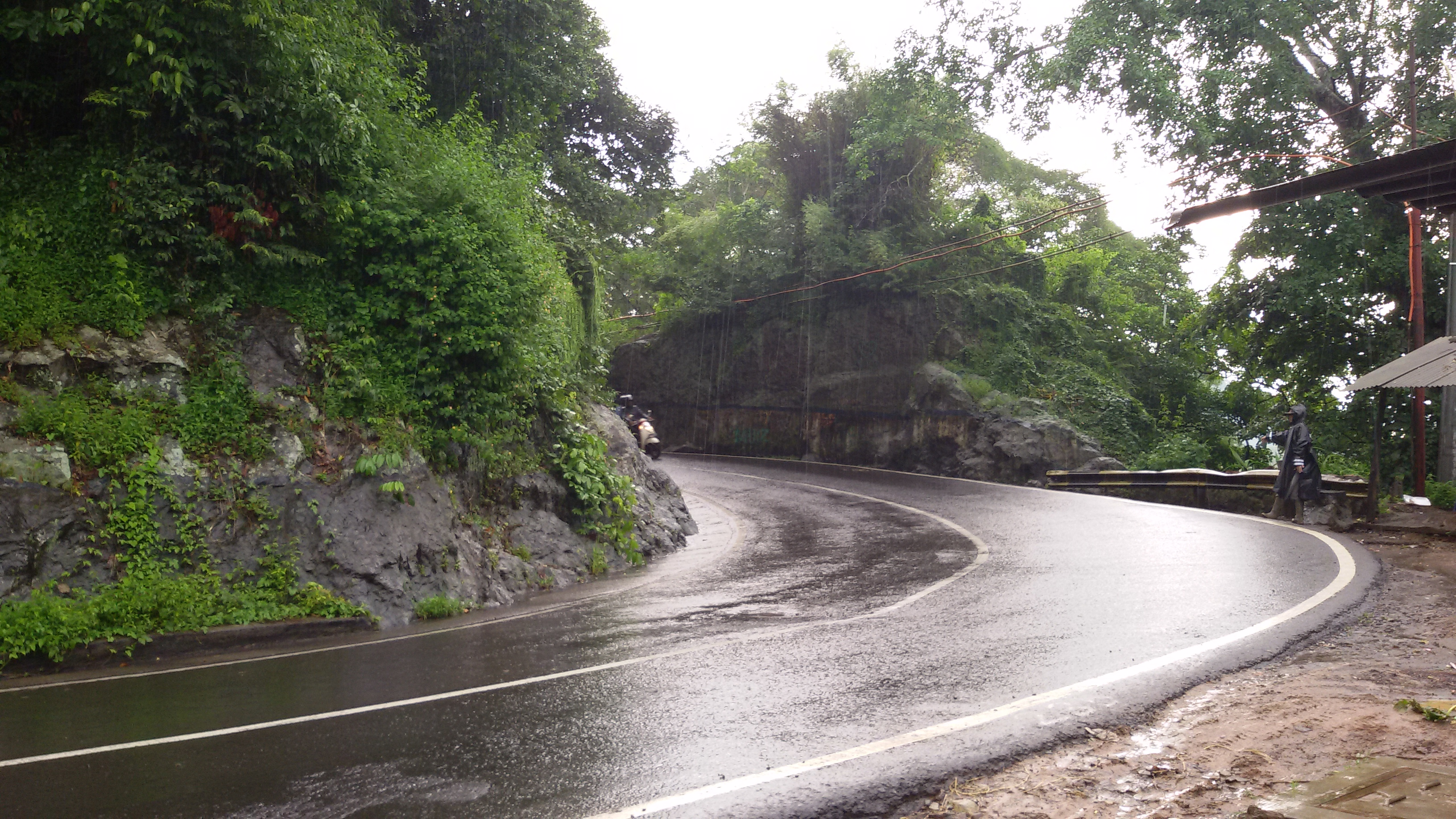 Watu gudang or giant stone on the uppermost side of Gumitir road